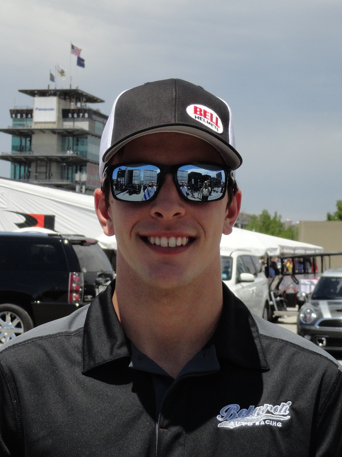 Portrait of Uruguayan racecar driver Santiago Urrutia at the 2017 Freedom 100, race 7 of the 2017 Indy Lights.